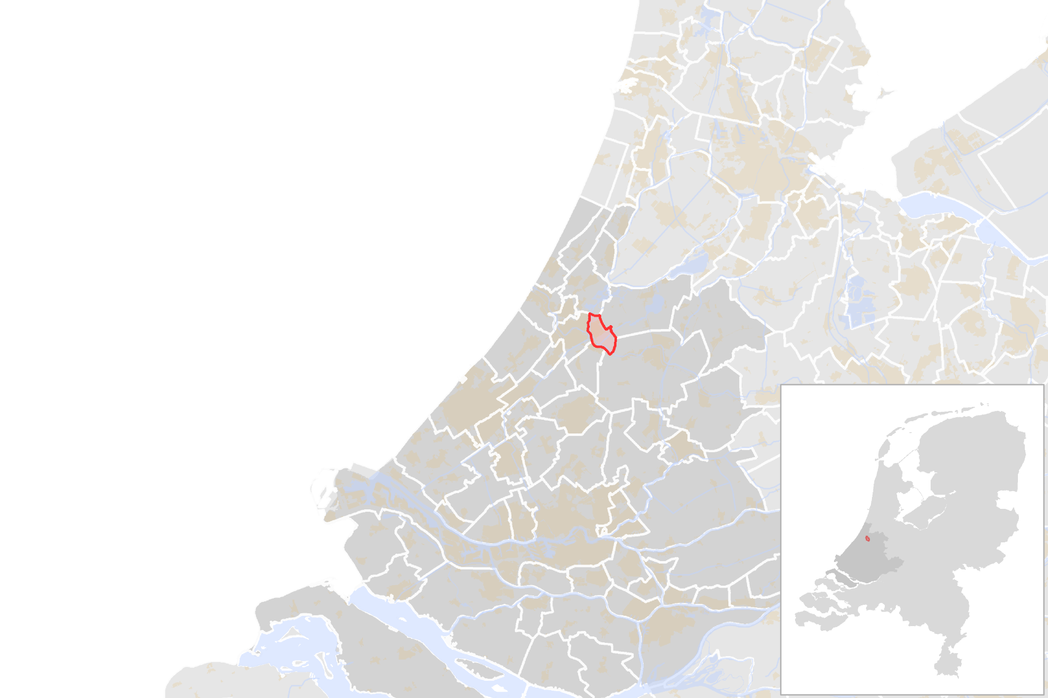 Locator map showing municipality boundary of one of the 390 Dutch municipalities (as of 2016)